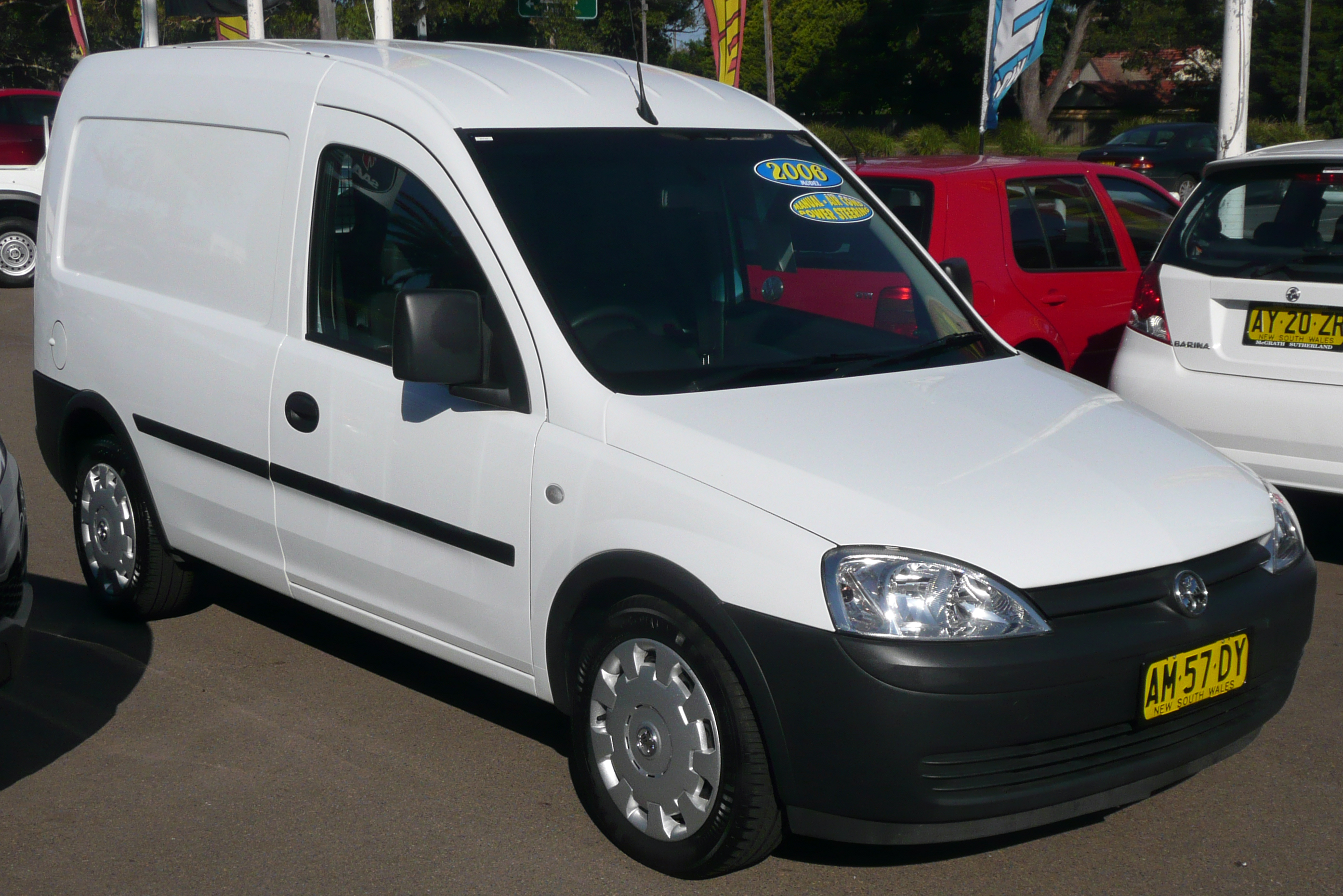 2006 Holden XC Combo (MY05) van. Photographed at McGrath Sutherland Holden, Kirrawee, New South Wales, Australia.